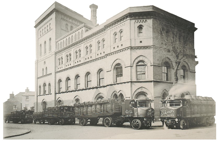 New Everards brewery on the corner of Southgate St and Castle St Leicester showing steam traction engines 1875.JPG